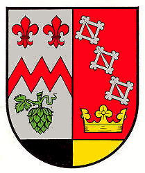 Coat of arms of Würzweiler